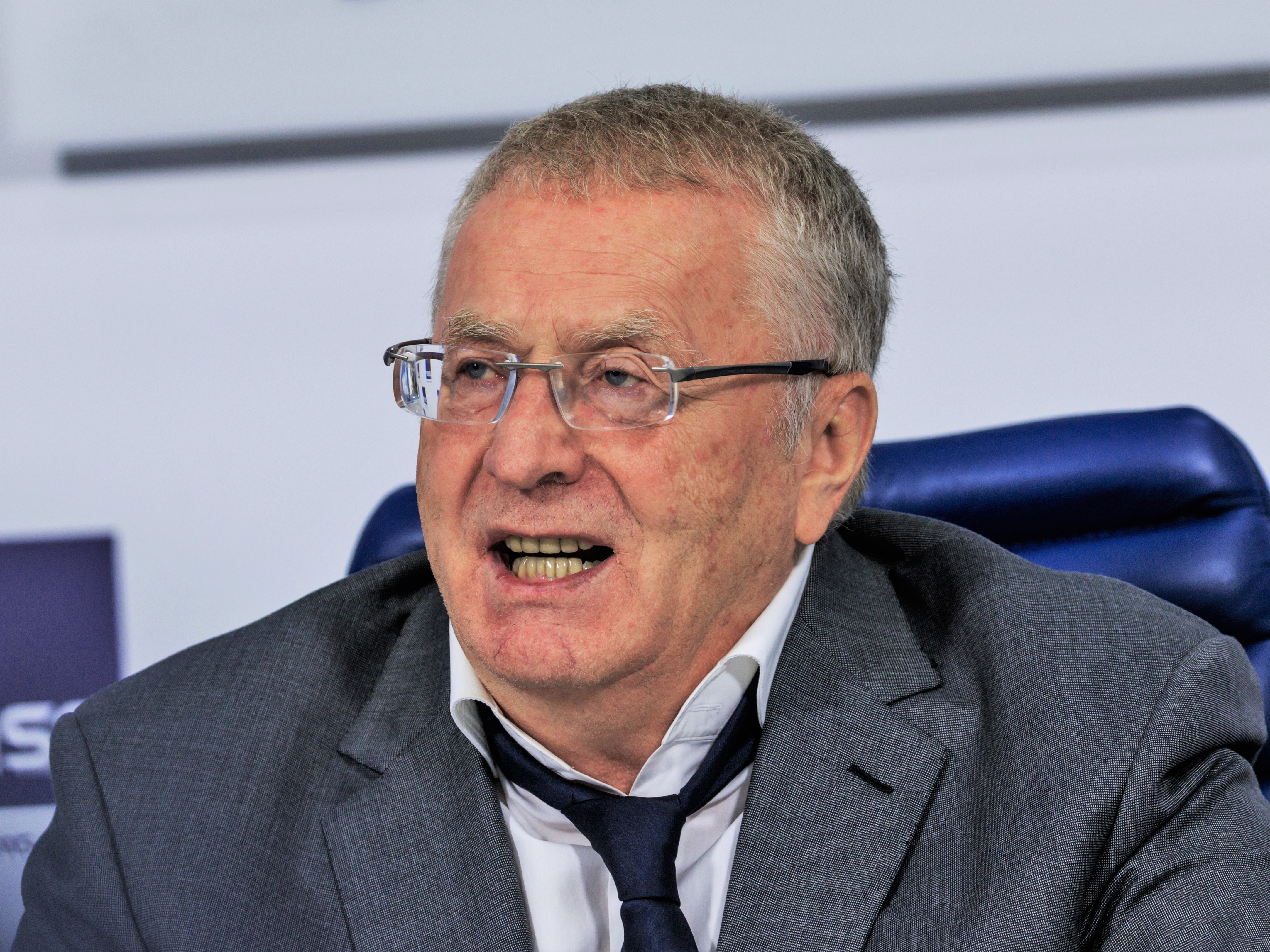 Vladimir Zhirinovsky (b. 1946) is a politician (LDPR) from Russia